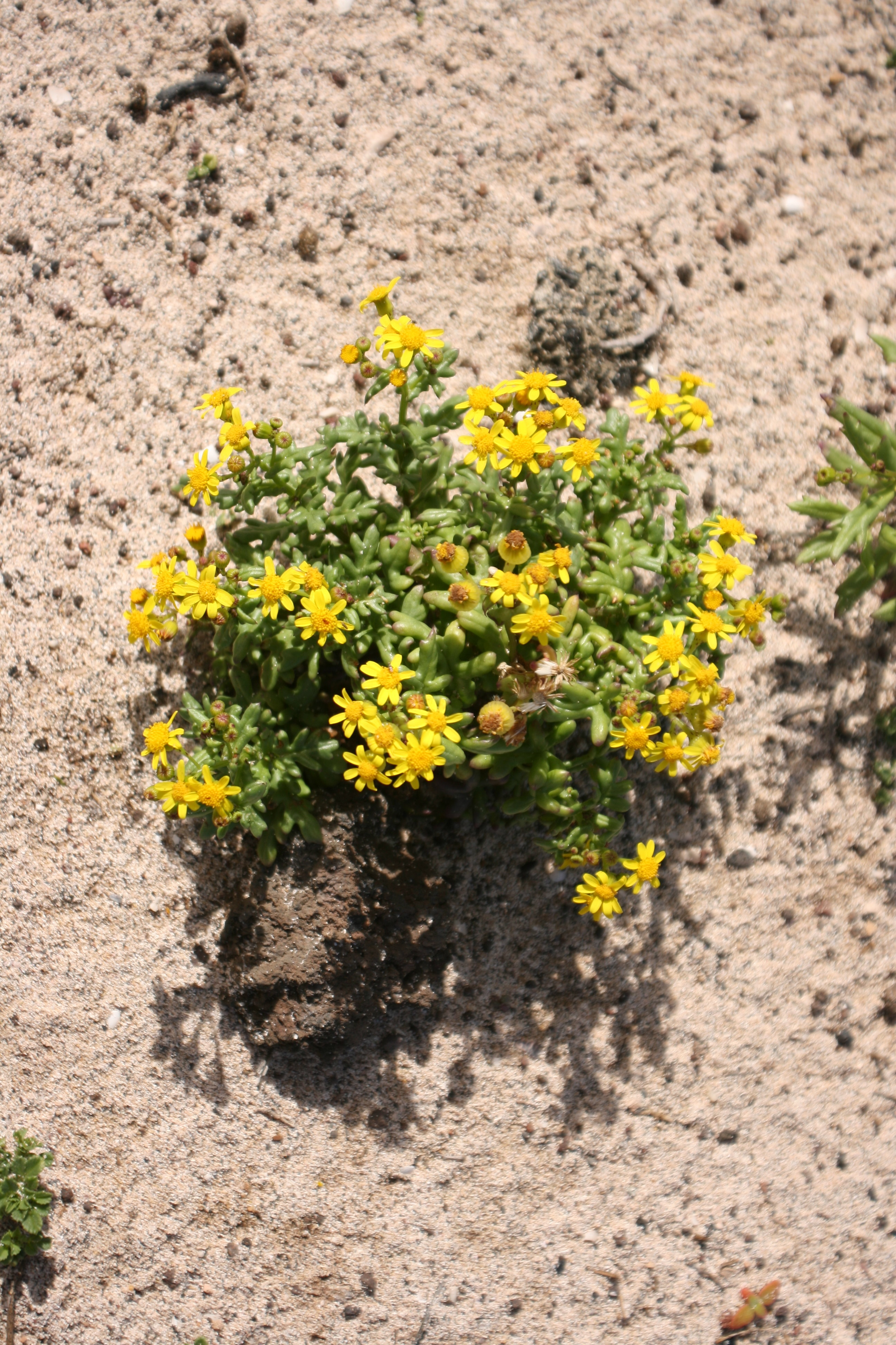 Senecio leucanthemifolius growing at La Caleta, Lugar Diseminado Maguez (LZ-1) in Haría